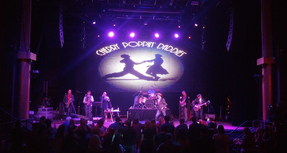 A photograph of the Cherry Poppin' Daddies performing at the Yost Theater in Santa Ana, California on April 23, 2017.